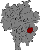 Location of Sant Sadurní d'Osormort in Osona